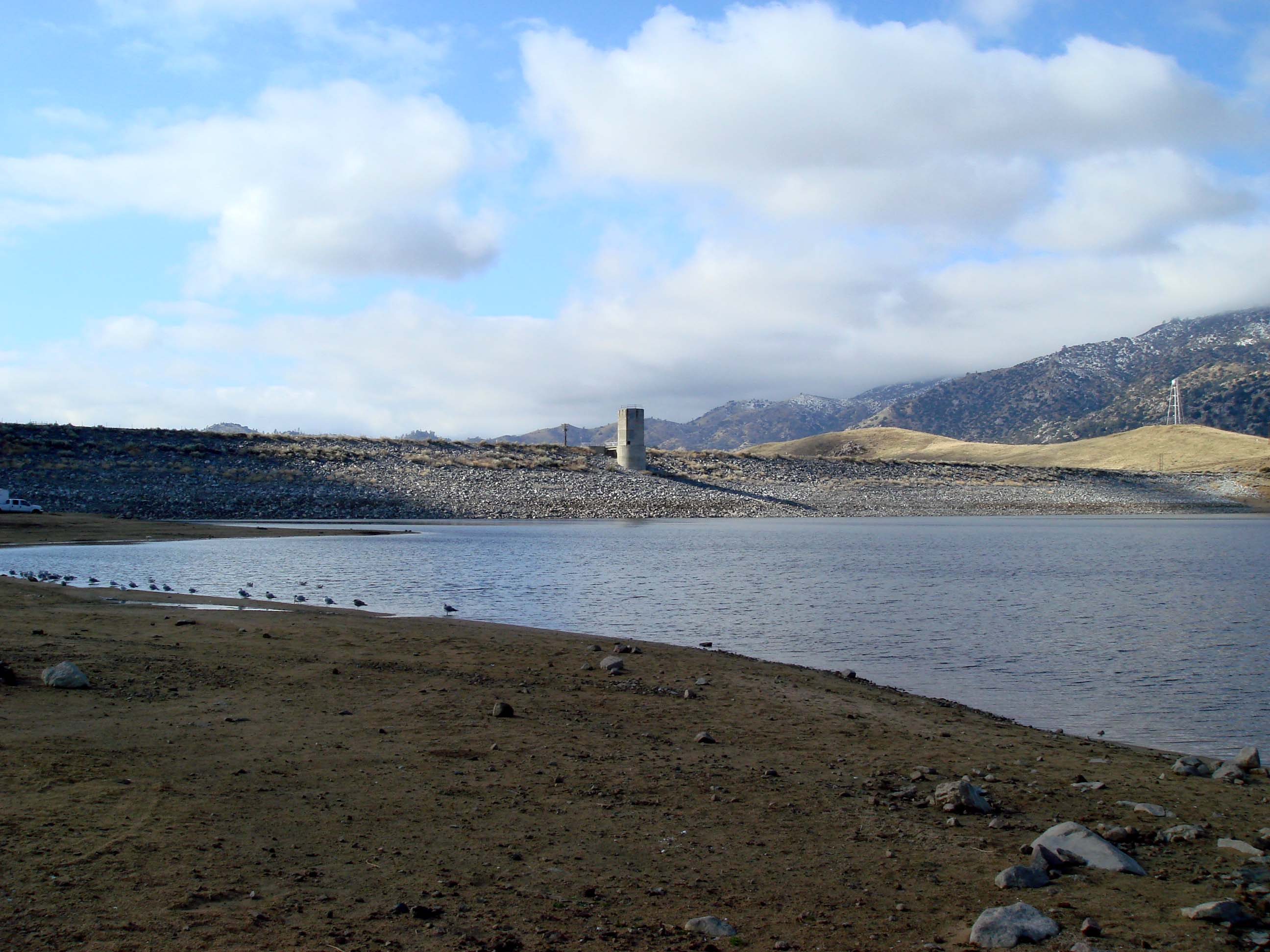 The auxiliary Isabella Dam, an earthen embankment dam on the Kern River in the Southern Sierra Nevada, in Kern County, California. View of impounded Lake Isabella reservoir in foreground.